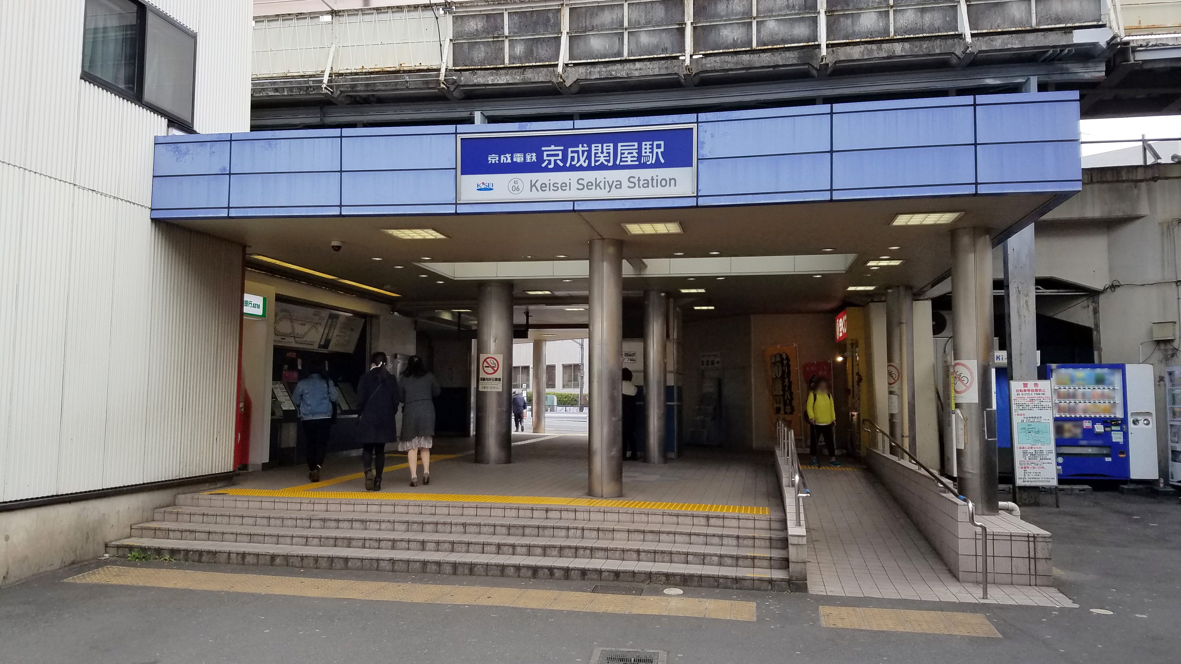 The north-side entrance of Keisei Sekiya Station on the Keisei Main Line in Tokyo